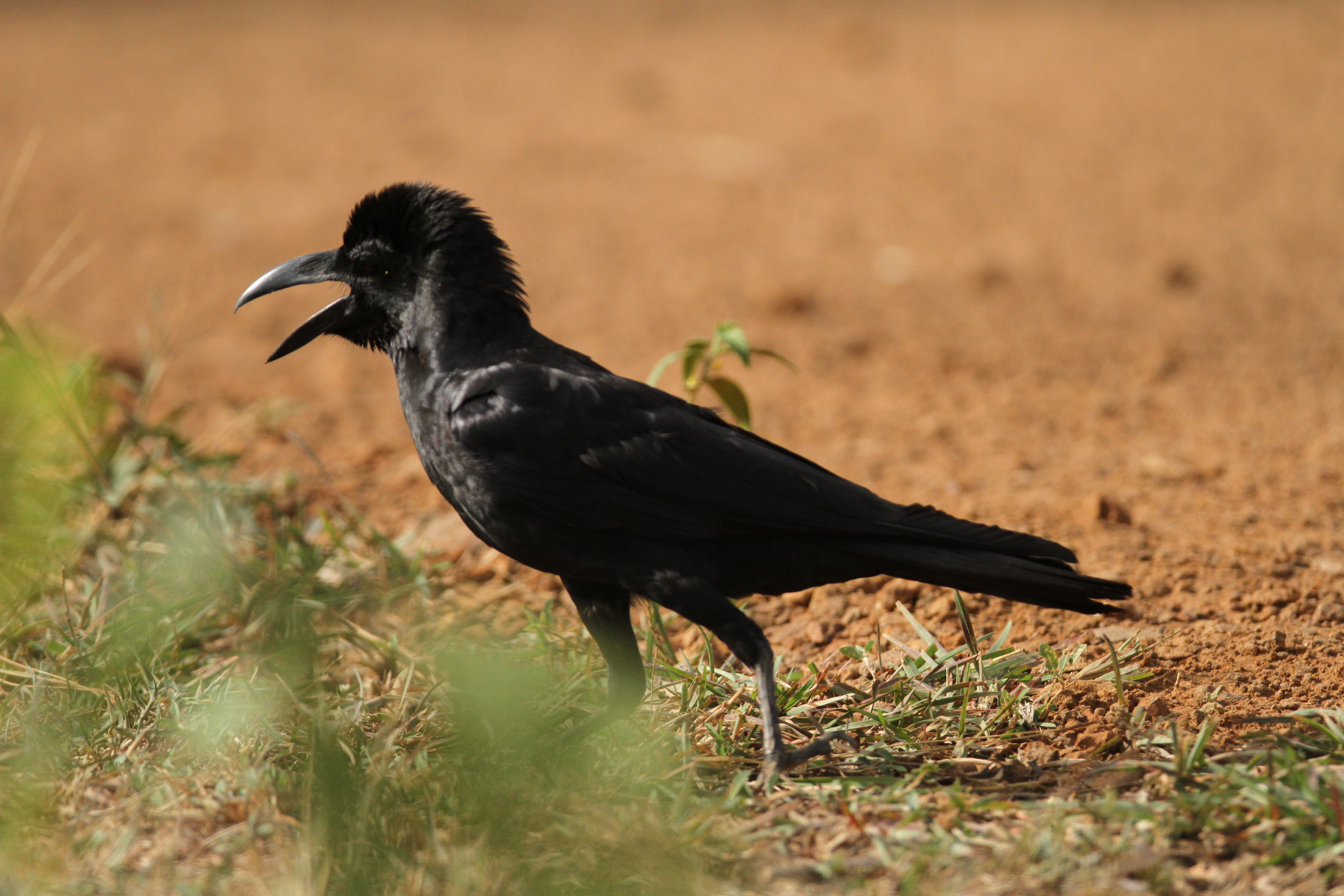 birds of India